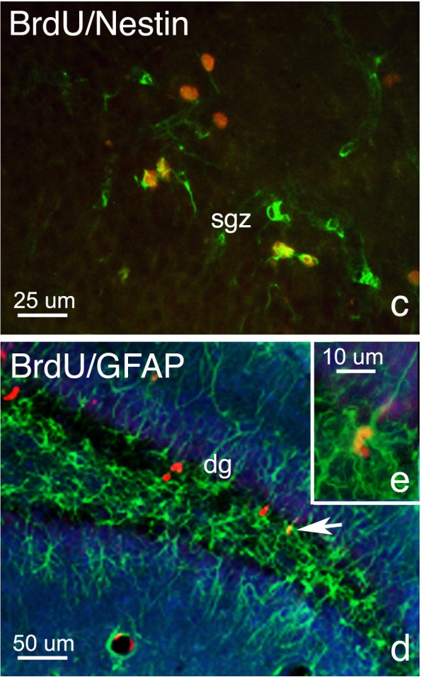 Phenotypes of proliferating cells in the RMS and DG. Double-labeled immunofluoresence studies showed that in the RMS most cells were BrdU+/nestin+ (arrow, a) and revealed the presence of GFAP+ filaments (arrow, b) surrounding BrdU+ cells (asterisk, b). In the DG, BrdU+/nestin+ cells (c) were seen and a few BrdU+/GFAP+ cells could also be found (arrow, d, e). BrdU (red); nestin, GFAP (green). Faiz et al. BMC Neuroscience 2005 6:26